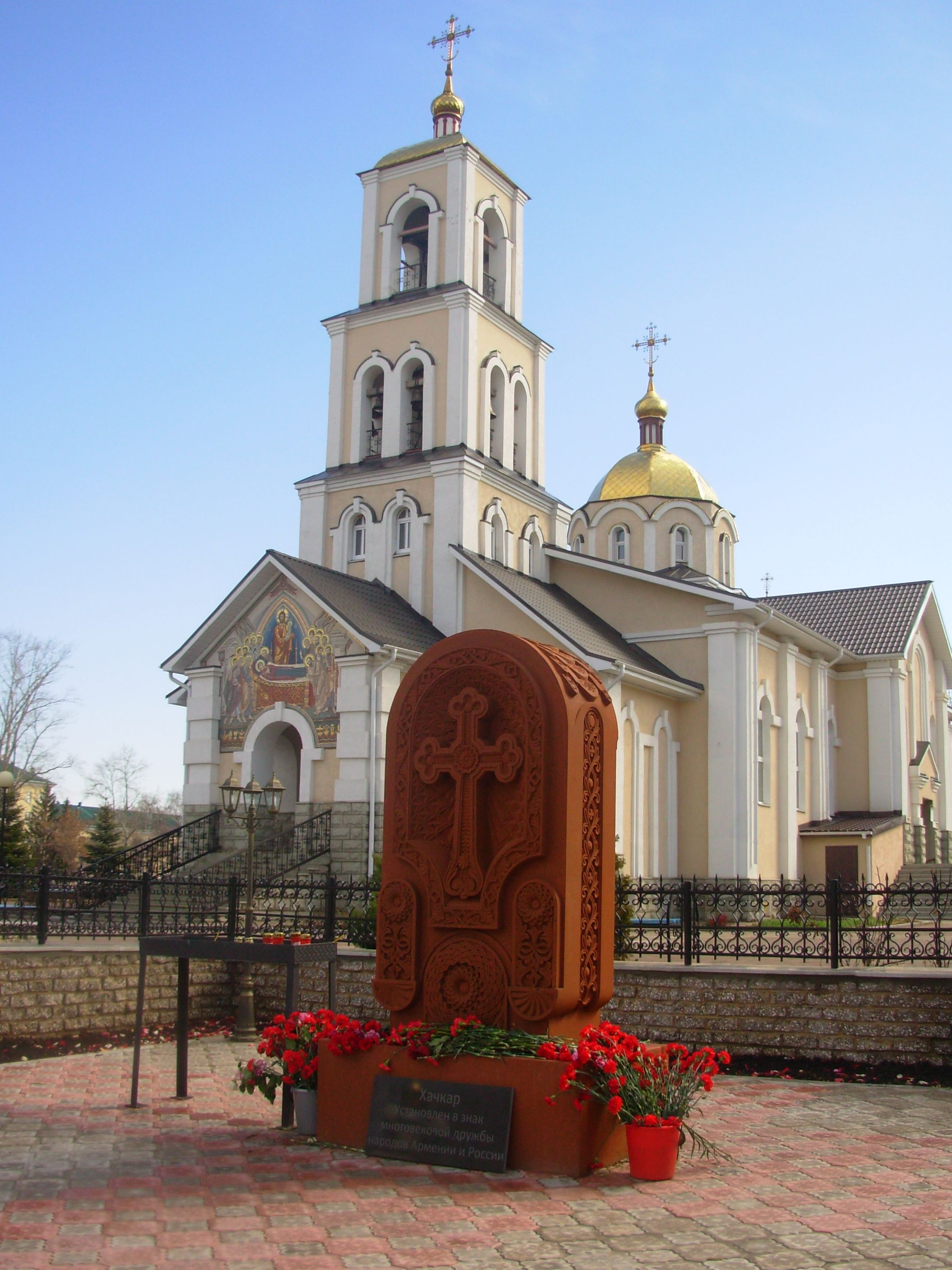 St. Dmitry Donskoy church